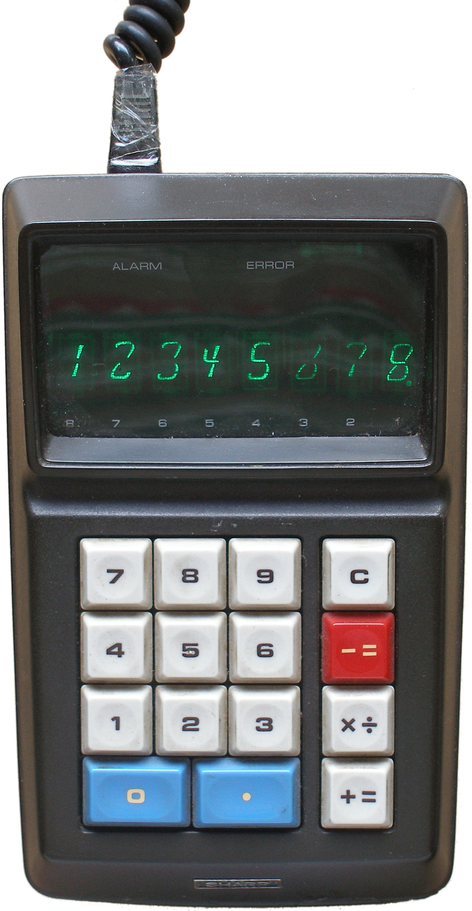 Sharp EL-8, the world's first hand-held electronic calculator to be mass-produced.